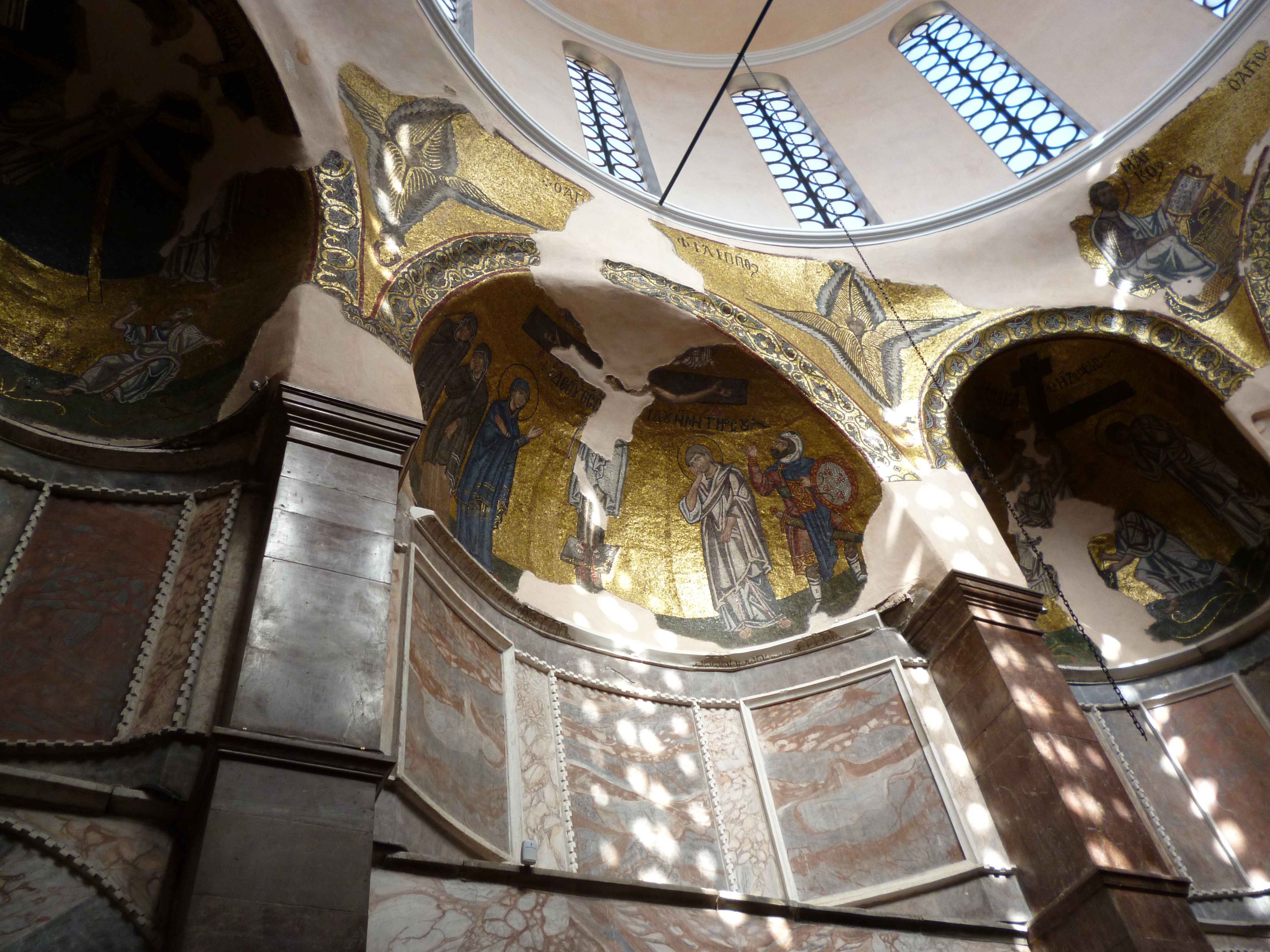 Interior of Nea Moni of Chios - Katholicon - Mosaic Crucifixion«Νέα Μονή Χίου»